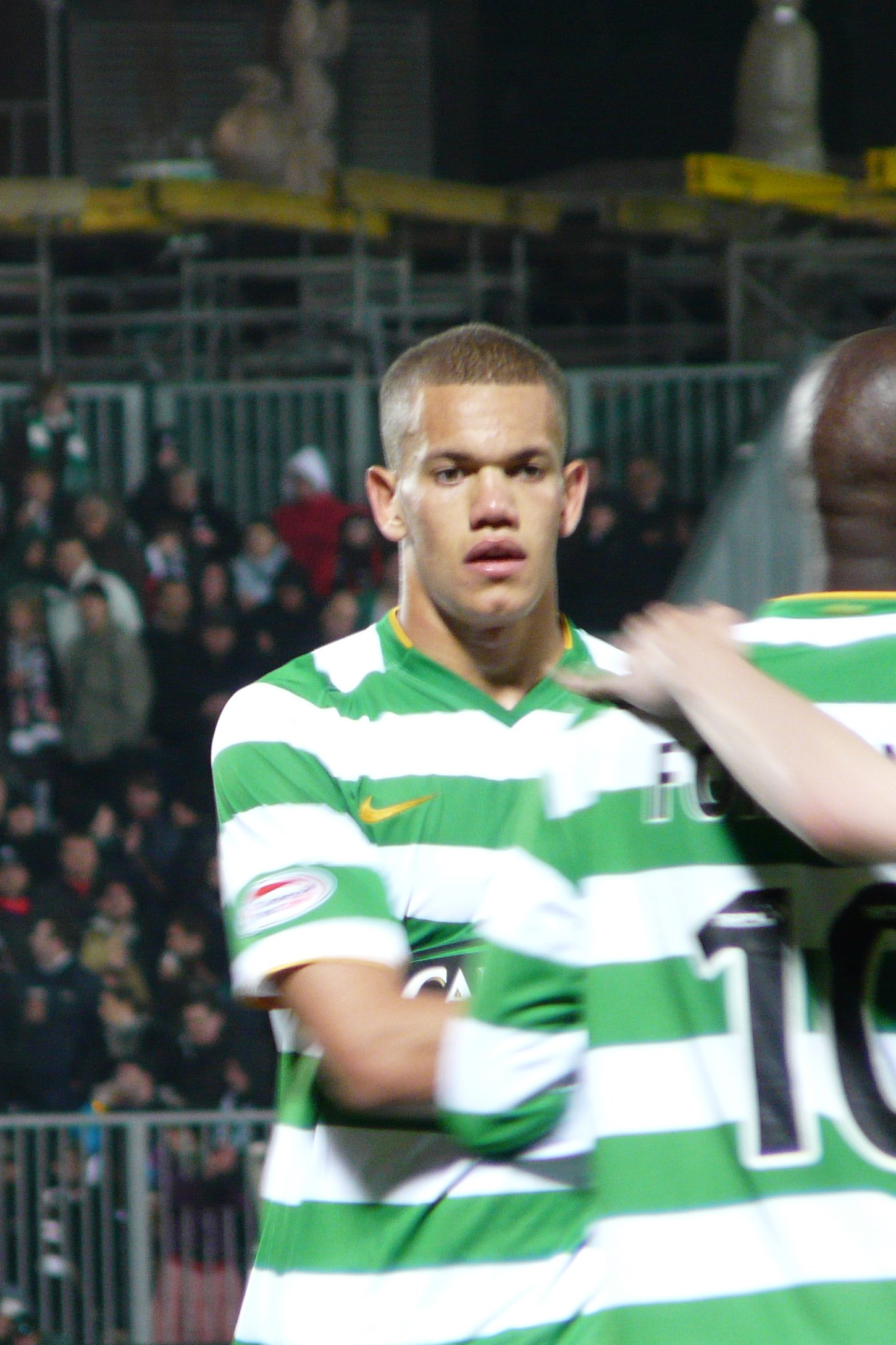 Josh Thompson as Player of Celtic Glasgow